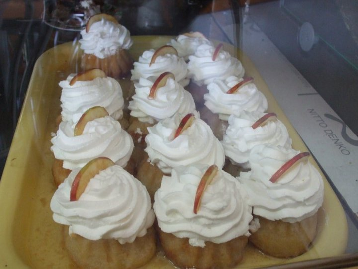 Romanian Rum Baba (Savarine) from Bukovina.